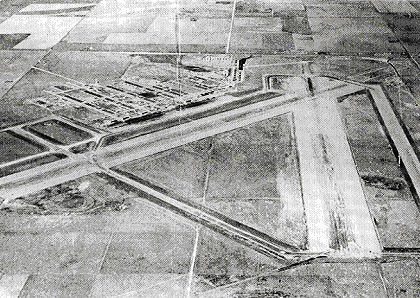 Aerial photograph of Clovis Army Airfield - New Mexico.